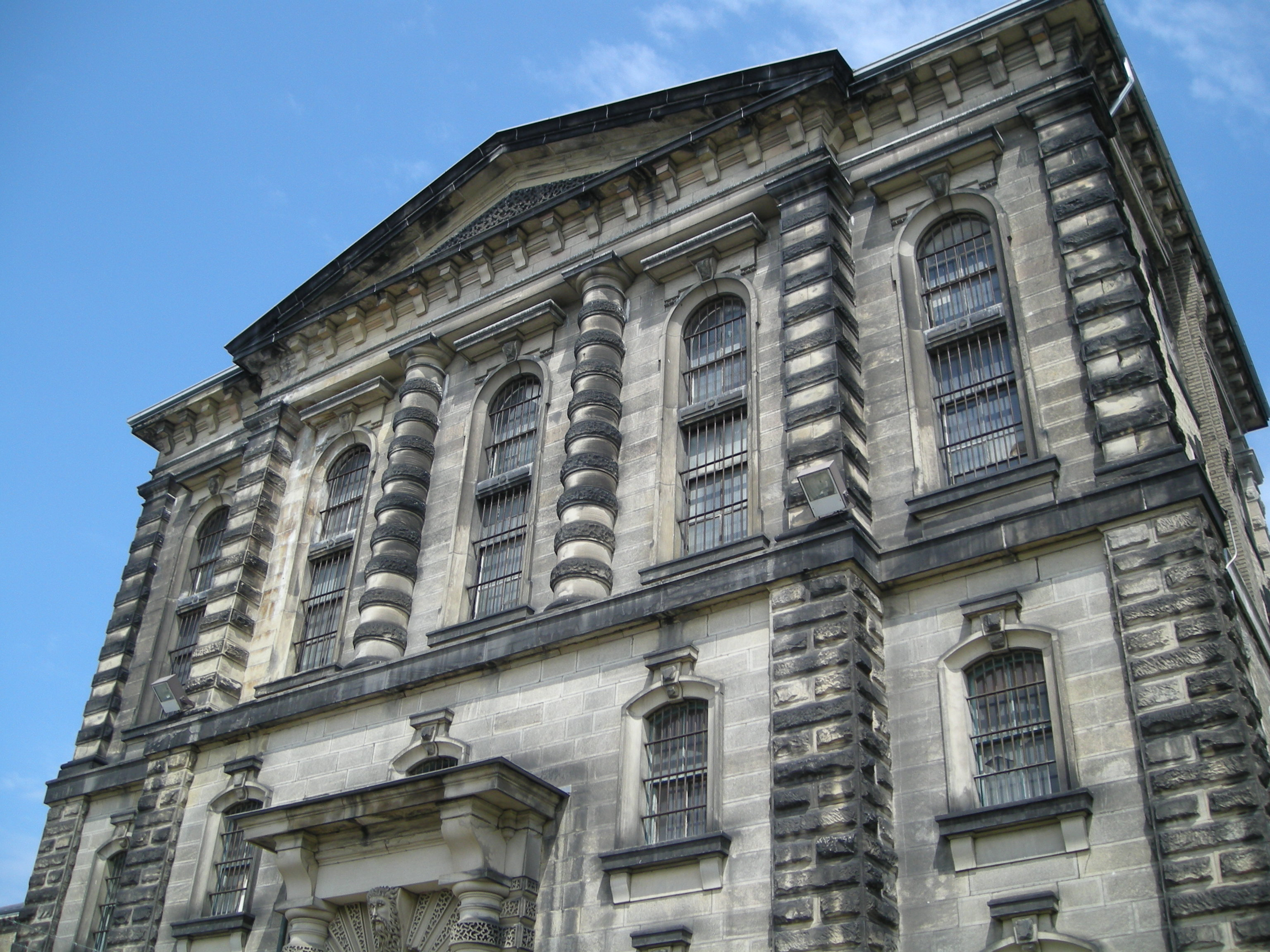 Toronto's Don Jail, soon to be restored and incorporated into the Bridgepoint Health Centre.